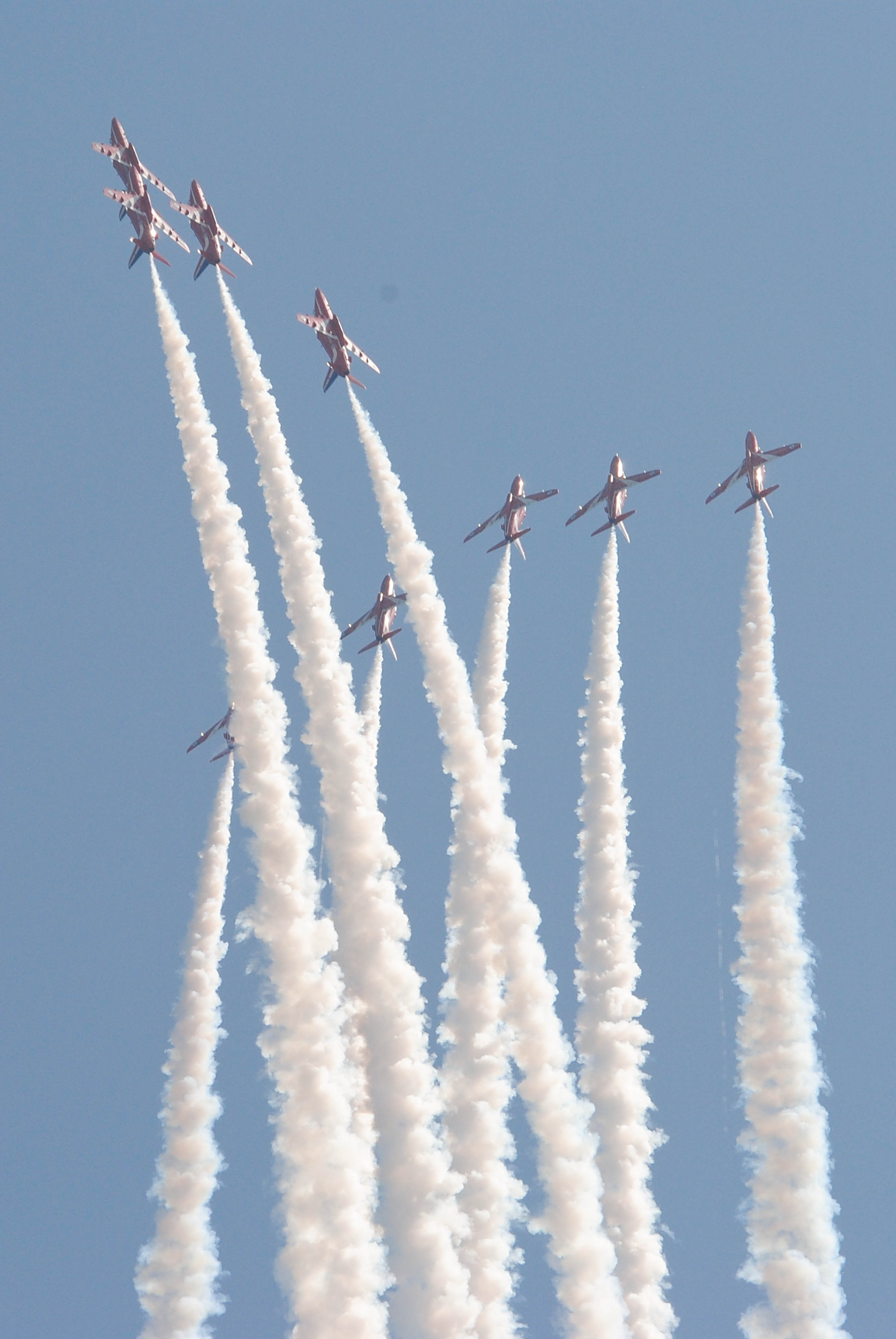 RAF Red Arrows